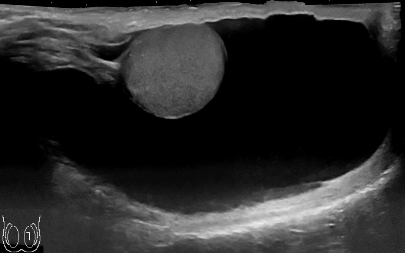 Scrotal ultrasound of a 1 dm large hydrocele in a 55 year old man, having lasted for at least a couple of months, of unknown cause. Anechoic (dark) fluid is seen surrounding the testicle.